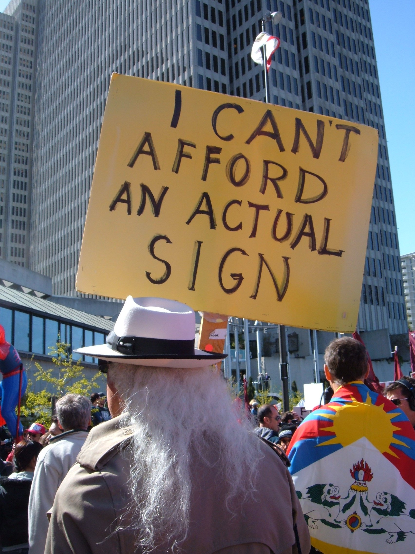 A humorous protester behind the closed off viewing area on Justin Herman Plaza. For an explanation and additional photos of my experience during the relay please see User:BrokenSphere/Gallery/San Francisco Bay Area/San Francisco/2008 Olympic Torch Relay.